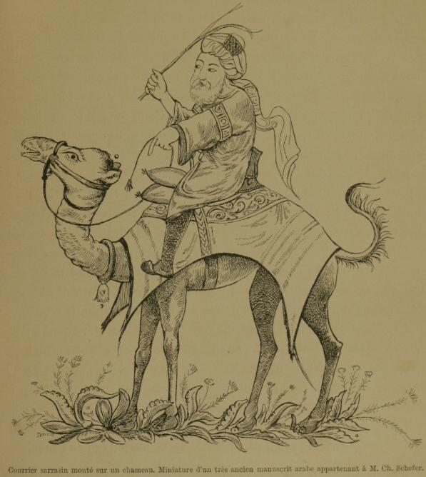 Saracen Courier on a Camel